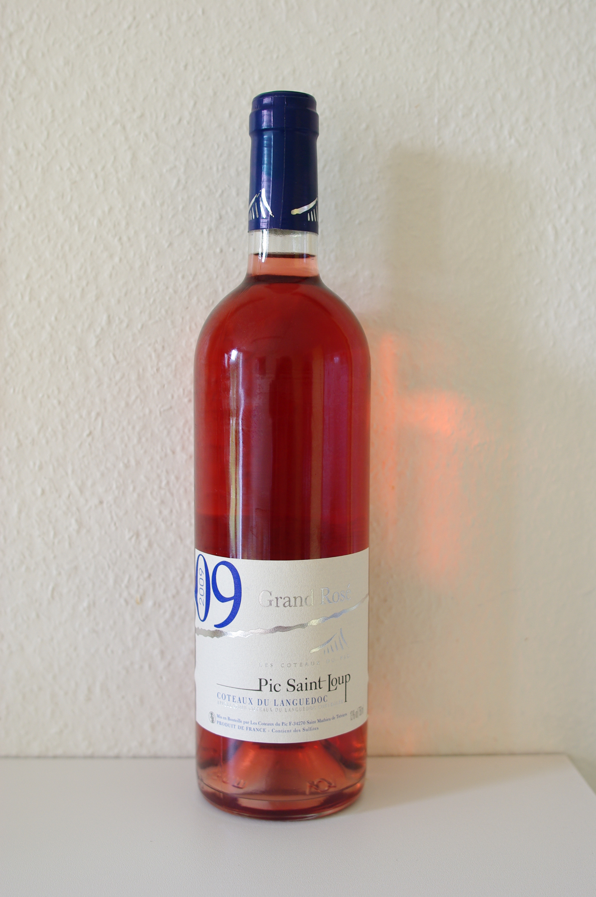 AOC Pic-saint-loup rosé 2009